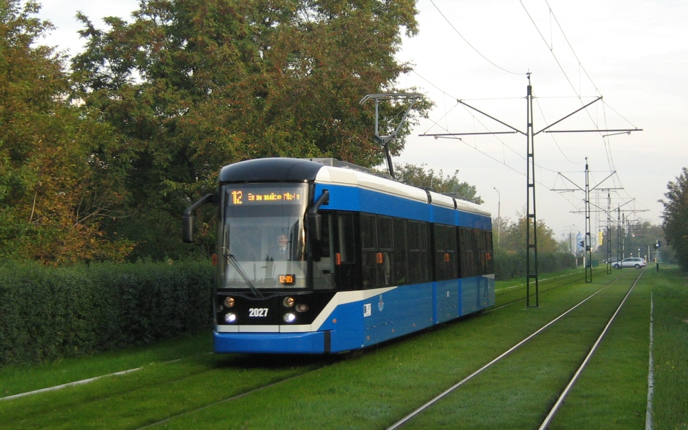 Newly assembled Bombardier NGT6 #2027, approaching "Bratysławska" tram stop. Kraków, Poland.